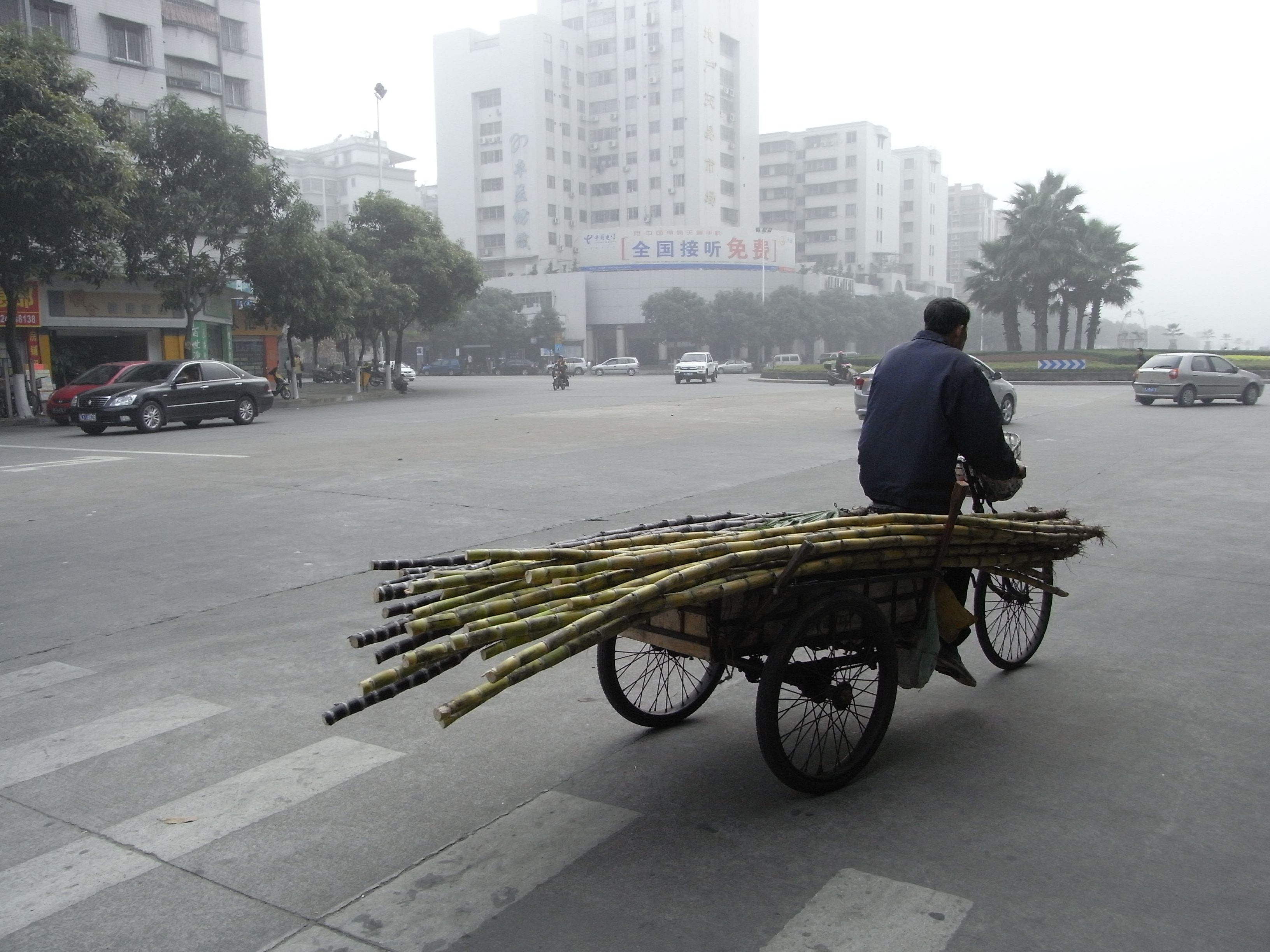 新會區2009年12月 中心南路 早晨 甘蔗 人力三輪車